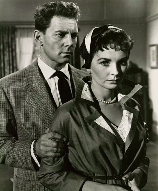 Jean-Pierre Aumont AND Jean Simmons in Hilda Crane - publicity still (cropped : see source)